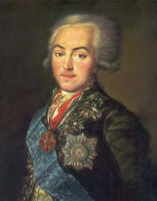 Portrait of Nikolai Sheremetev